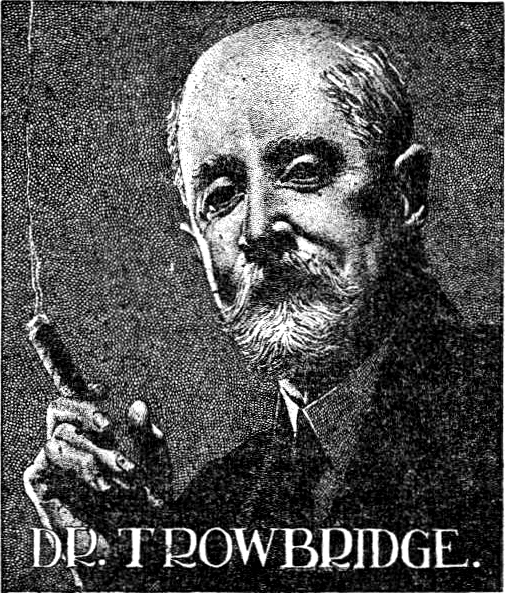 Portrait of Dr Samuel Trowbridge of Seabury Quinn's Jules de Grandin series. Internal illustration from the pulp magazine Weird Tales (October 1937, vol. 30, no. 4, page 387).